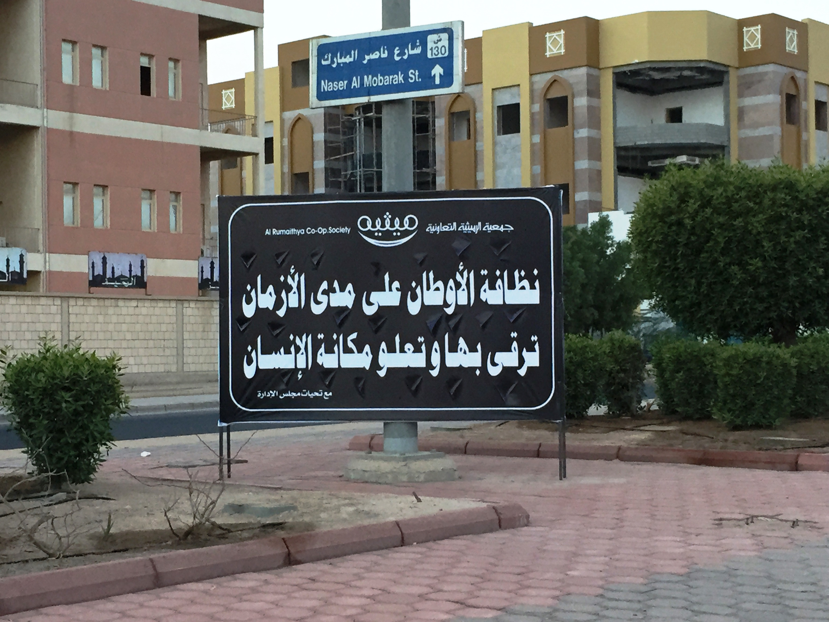 Awareness banners of cleanliness in Rumaithiya streets set by Rumaithiya co-op. in Muharram 2014